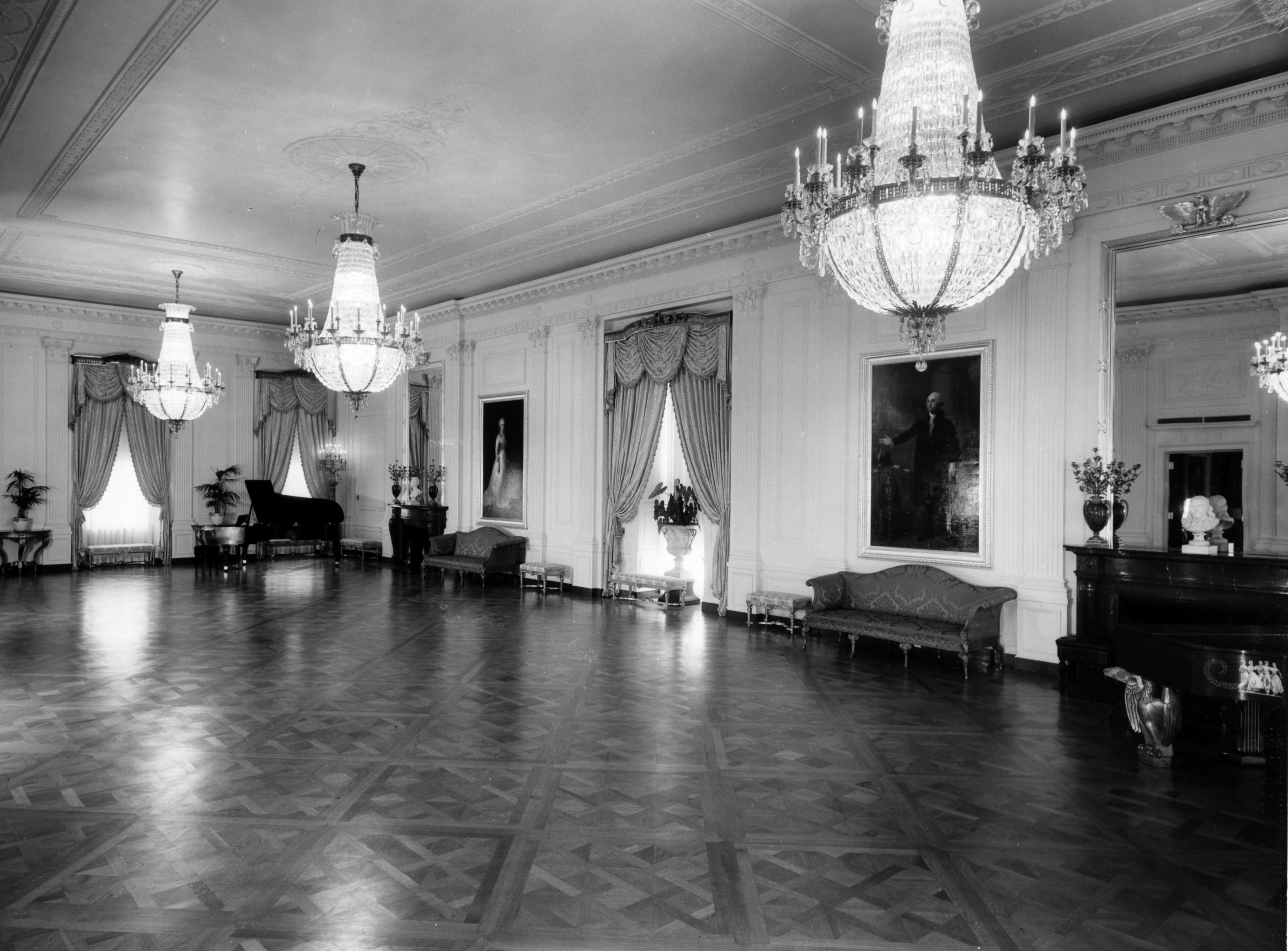 General notes: The East Room of the White House, with portraits of George and Martha Washington on the walls. From an album of photographs by Abbie Rowe of the White House after the 1949 renovation.